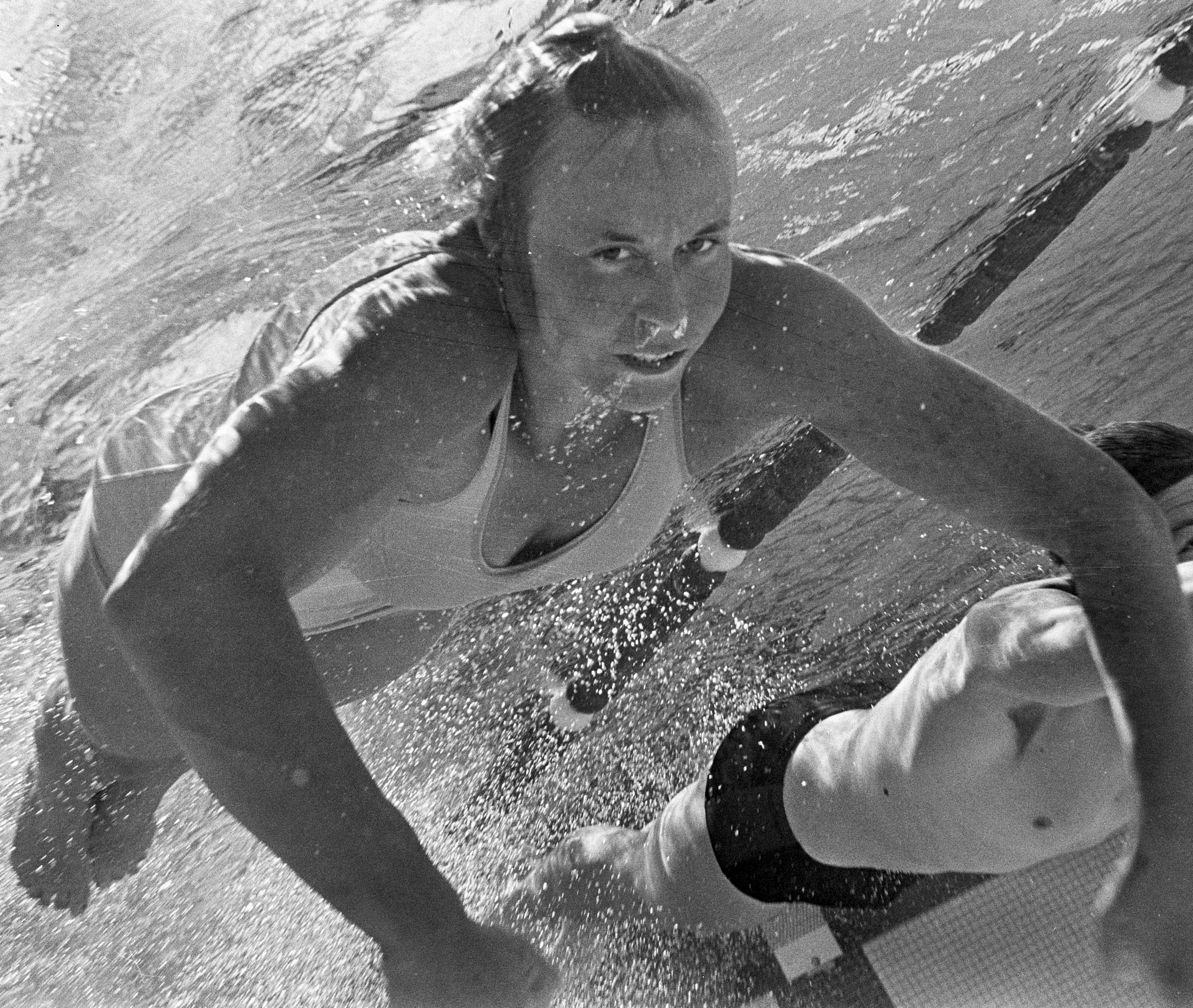 Gretta Kok